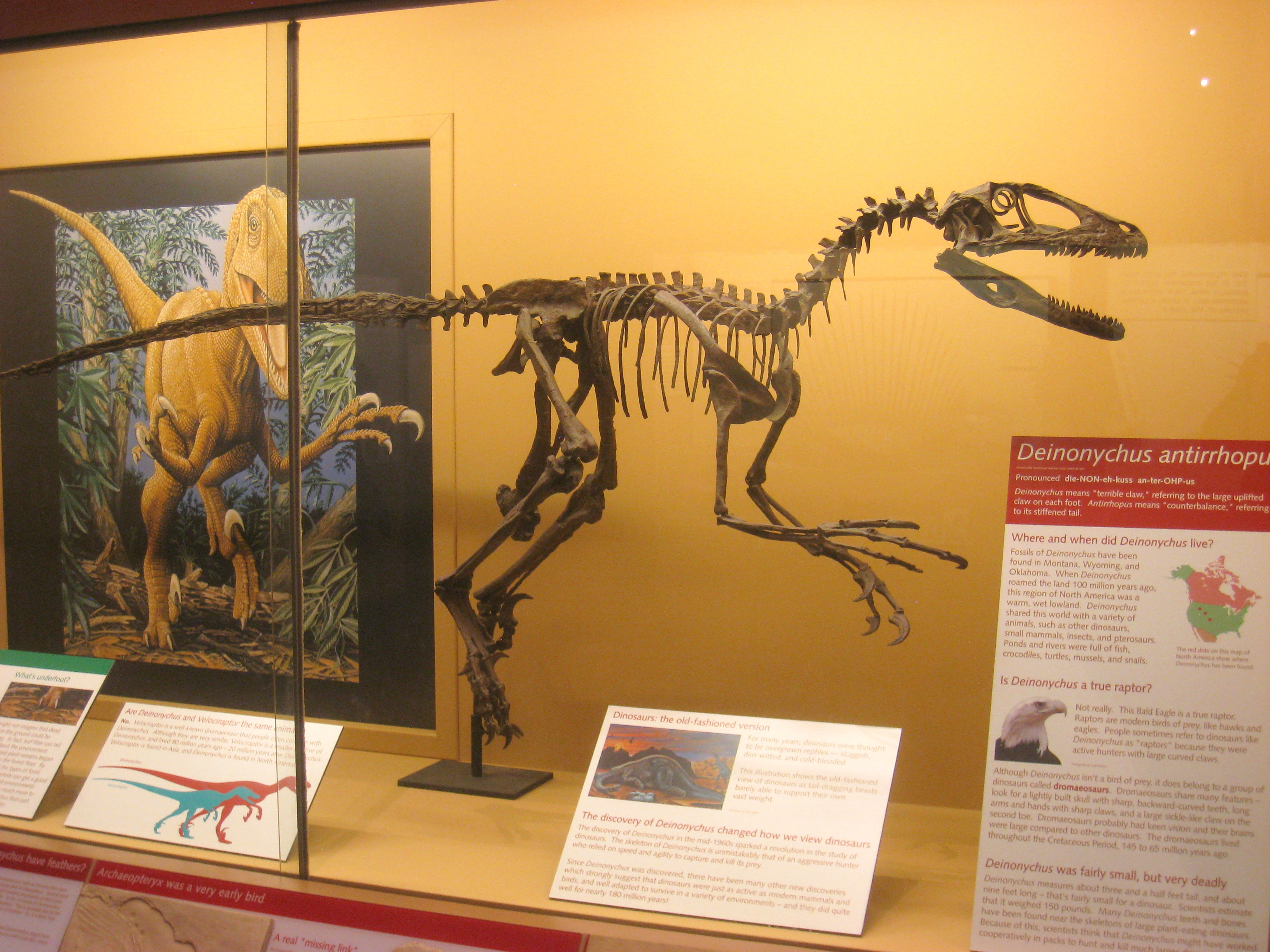 Deinonychus antirrhopus. Exhibit Museum of Natural History, University of Michigan, 1109 Geddes Avenue, Ann Arbor, Michigan, USA.